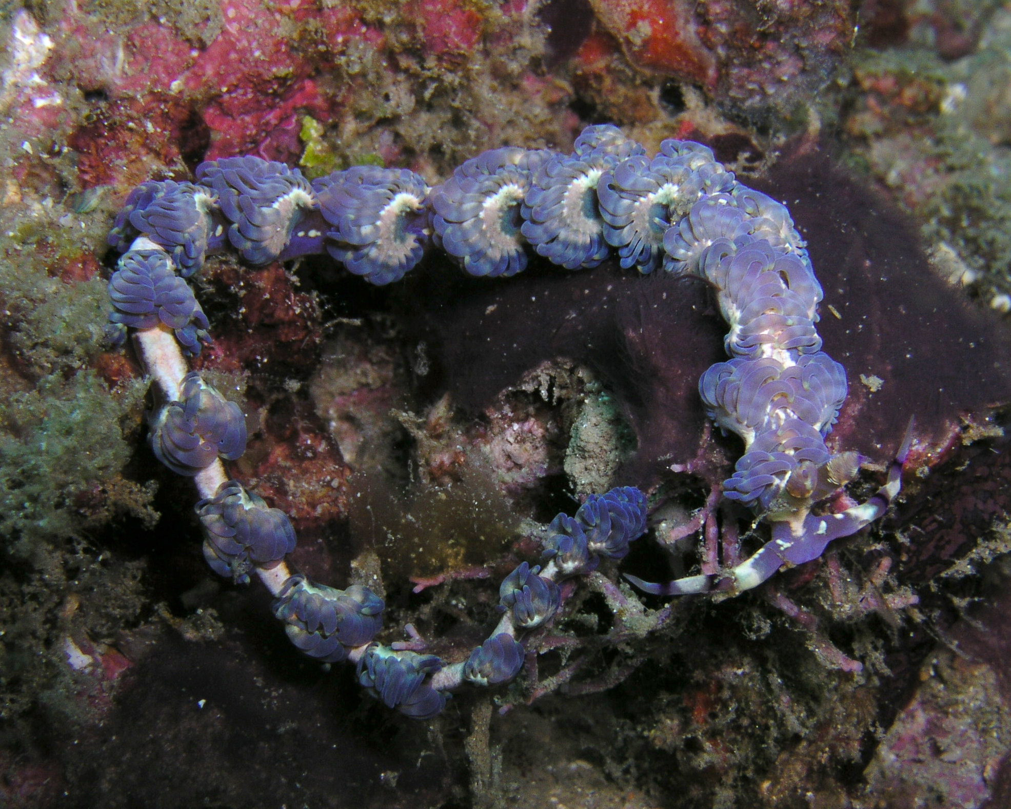 Pteraeolidia ianthina reef dragon nudibranch